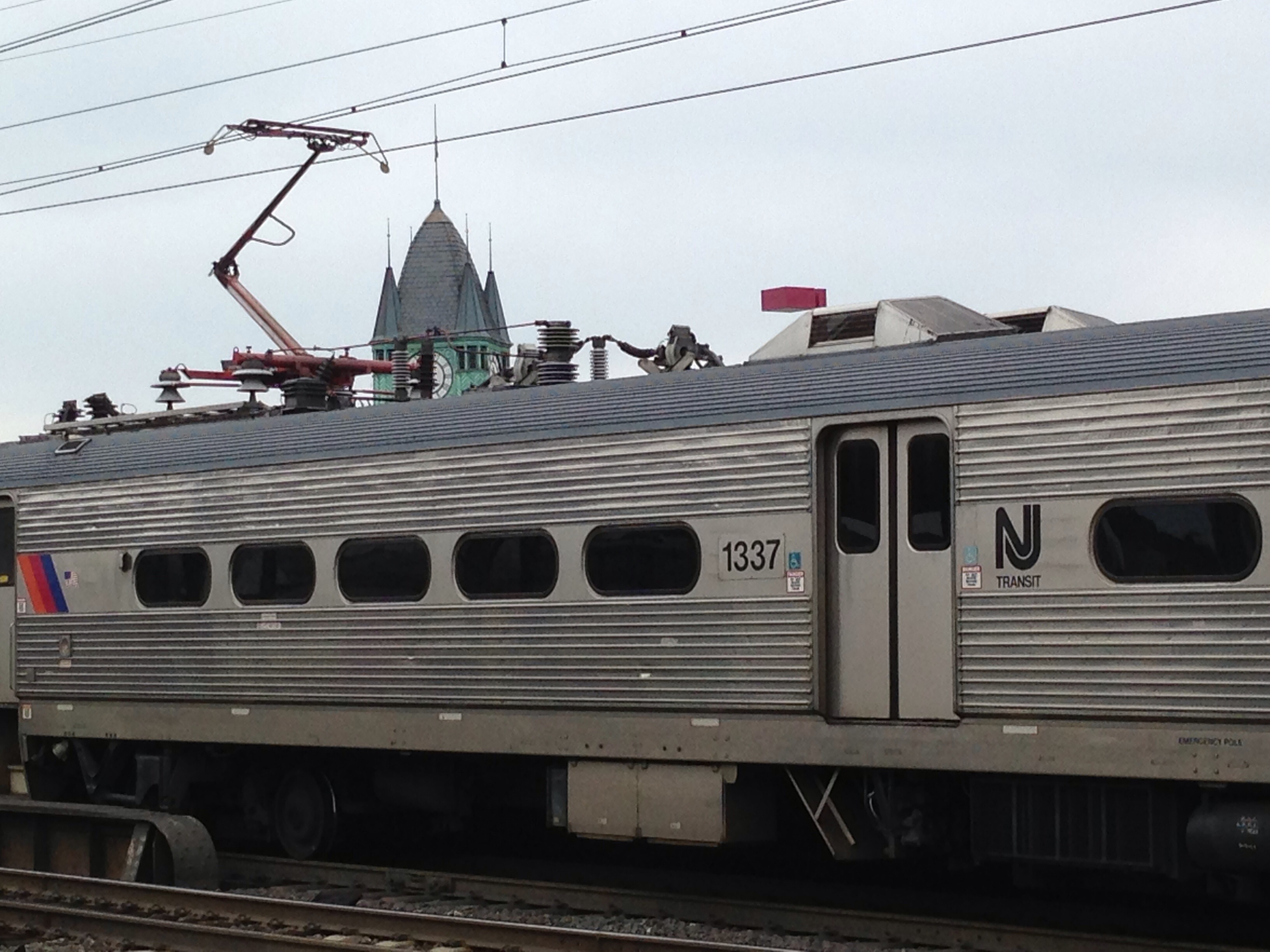 Elizabeth NJ Transit Station - train 1337